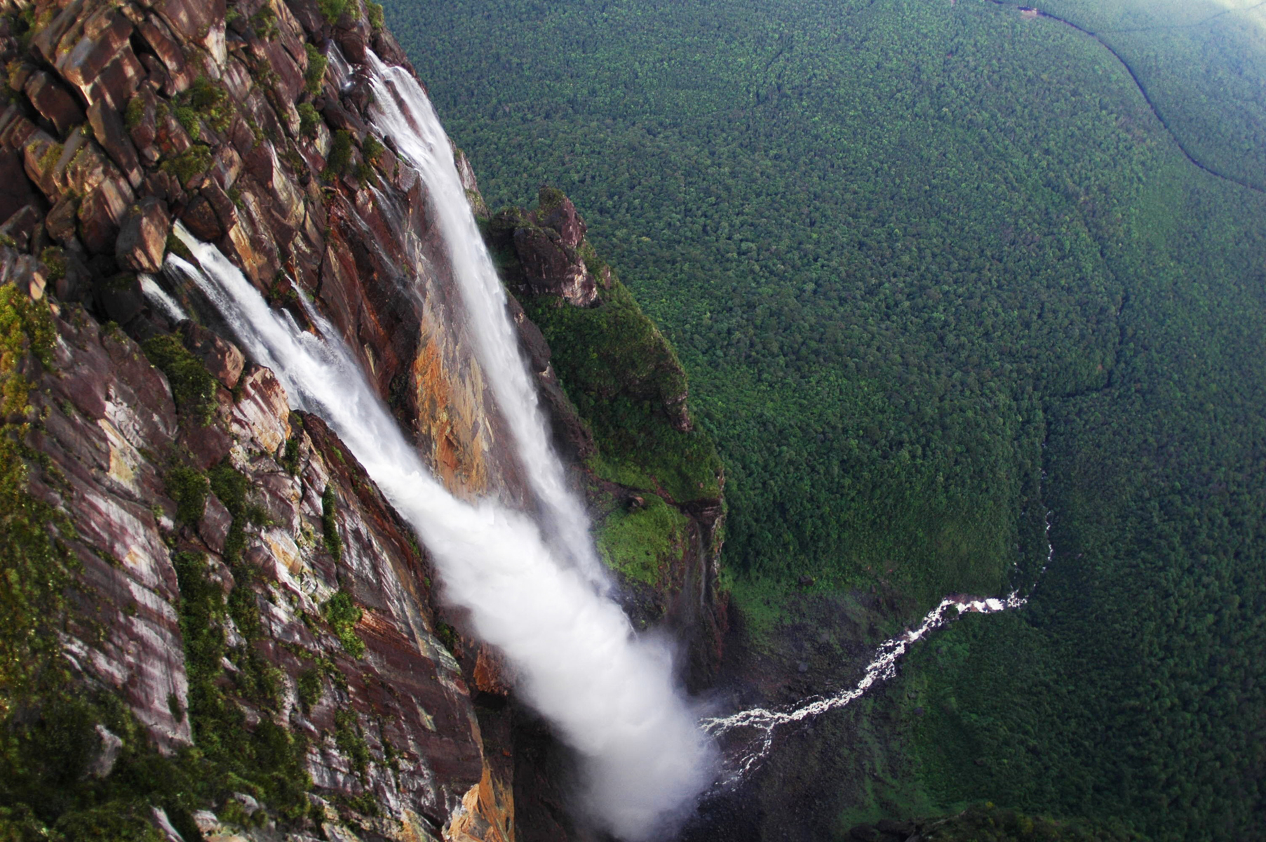 Angel Falls in Venezuela